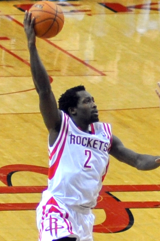 Patrick Beverley of the Houston Rockets takes a shot as Enes Kanter of the Utah Jazz defends during an NBA basketball game on March 17, 2014, at the Toyota Center in Houston, Texas.